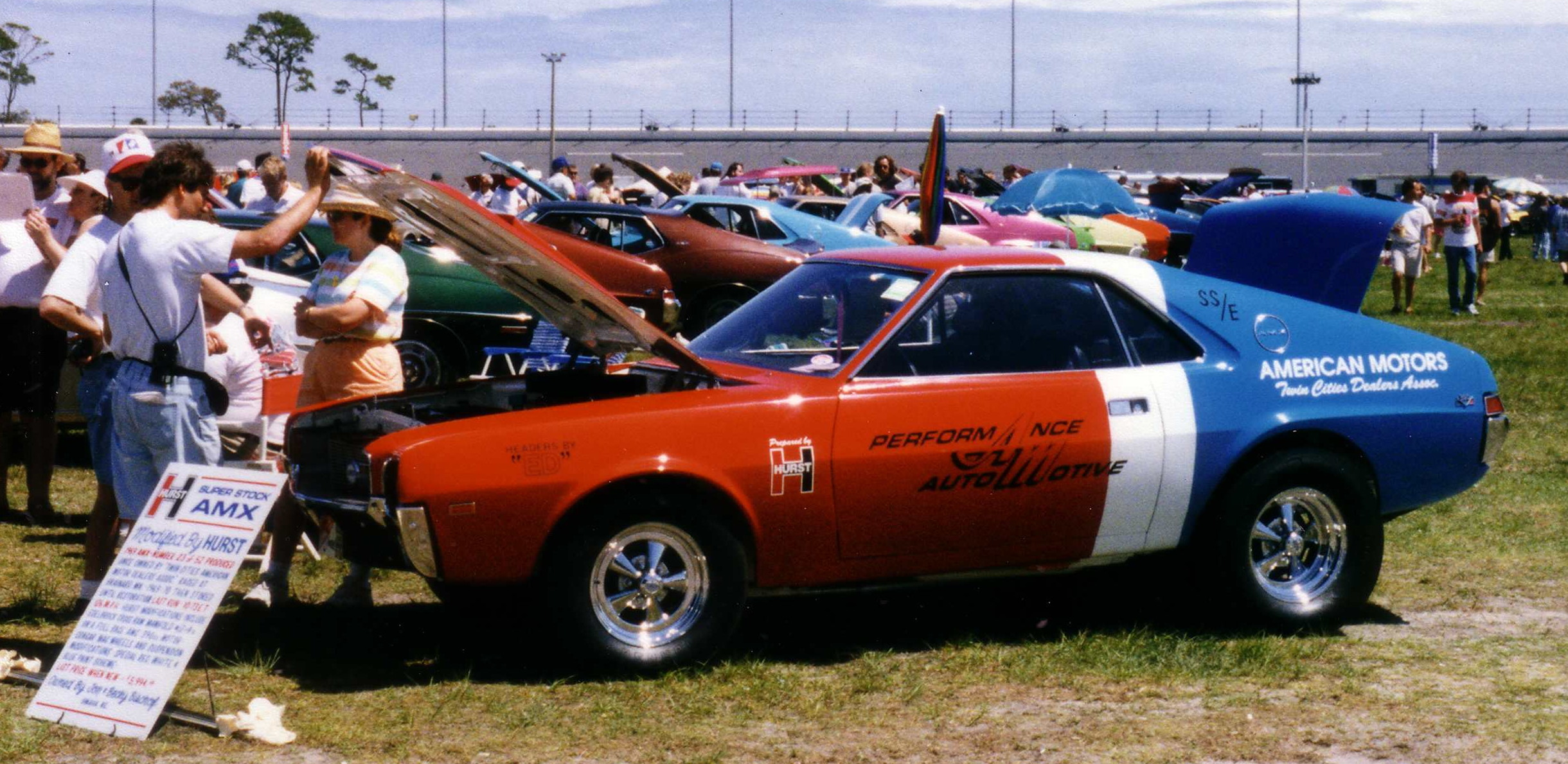 1969 Super Stock AMX. This is vehicle #23 out of 52 that were special factory prepared by AMC (American Motors Corporation) and Hurst Performance for drag racing. The two-seat, GT-type sports coupe has minimum comfort features, but is powered by AMC's 390 CID (6.4 L) V8 engine with twin Holley carburetors and 12.3:1 compression-ratio. Picture was taken at the classic AMC show in Daytona, Florida.